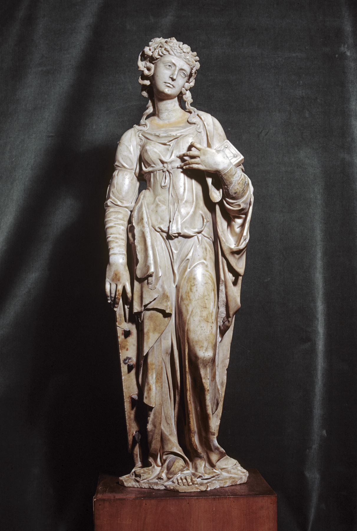 Saint Catherine of Alexandria (Egypt) was a noblewoman, who, in the early 4th century, challenged the pagan Roman emperor with her faith in Christ. The emperor ordered her to be executed on a spiked wheel, but it miraculously broke, and he had her beheaded instead. She is identified here by the broken wheel with iron spikes. Ferrucci, master sculptor of the cathedral of Florence, left the back of the statue unfinished, indicating that it was to be placed in a niche or in front of a wall as part of an architectural setting. The drapery covers Catherine's body in a way that reveals its underlying form, and the gracefully elongated proportions, as in her neck, are characteristic of the 16th-century ideal of female beauty. The orange stain on her chest is from an iron necklace (that had rusted) that is now lost.